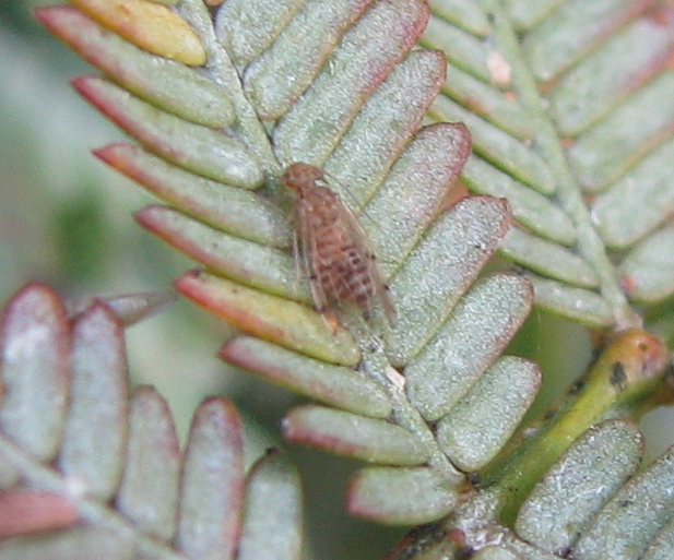 Acizzia acaciabaileyana adult closeup, Prebbleton, New Zealand. April 2009 [MISIDENTIFICATION! This is a psocopteran of the genus Ectopsocus!]